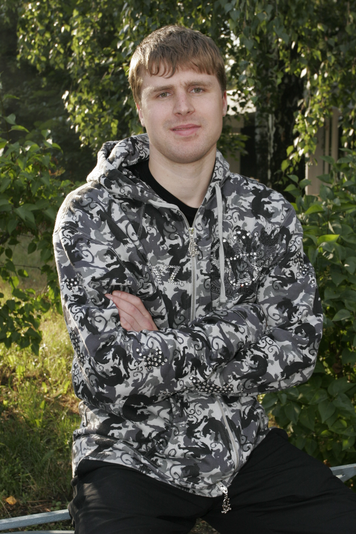 Ilya Bryzgalov, russian professional ice hockey goaltender